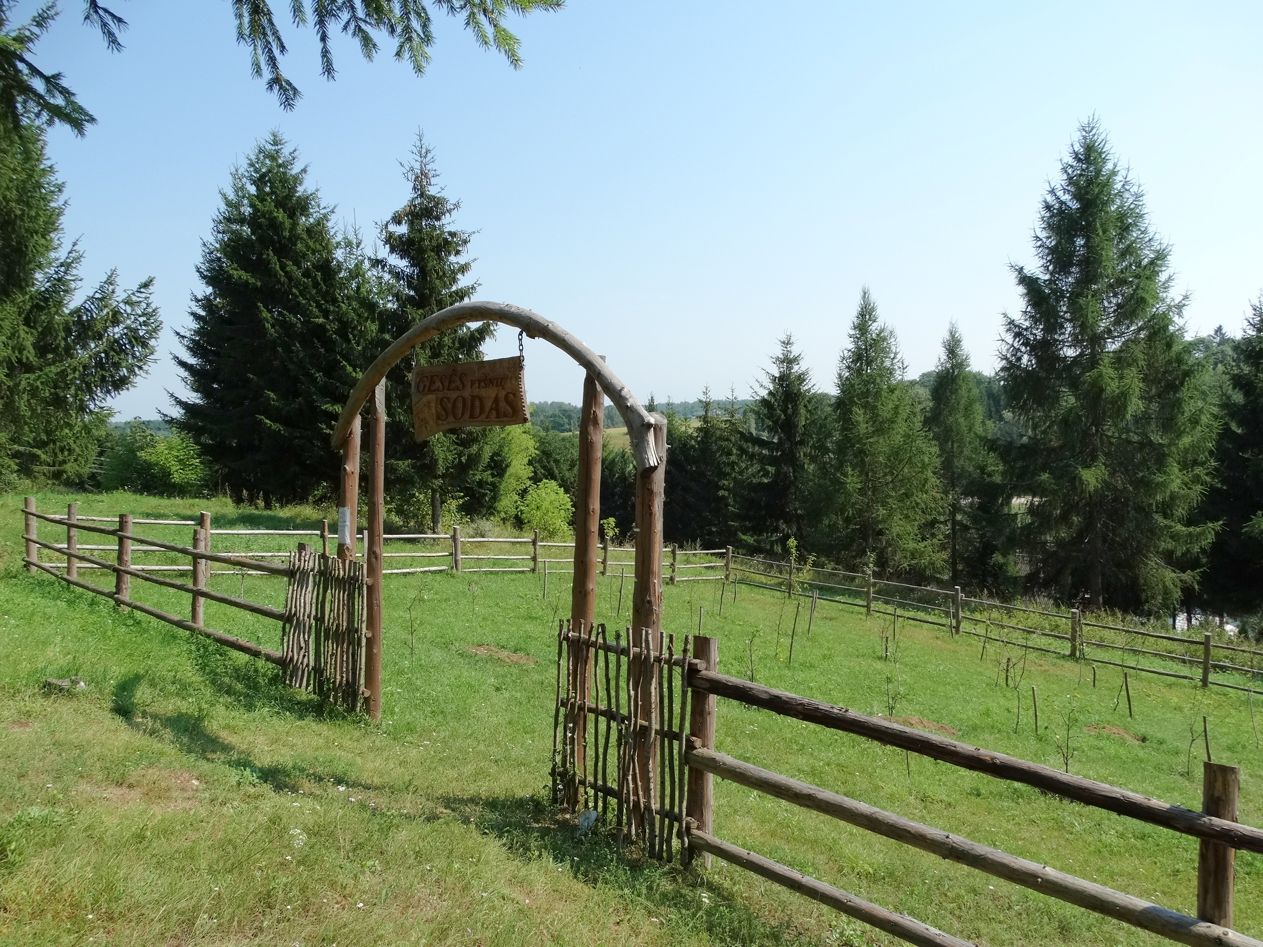 Gesės cherry garden, Tauragnai, Utena District, Lithuania